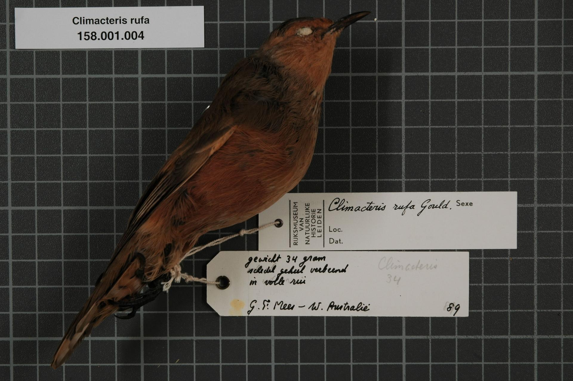 Climacteris rufa Gould, 1841